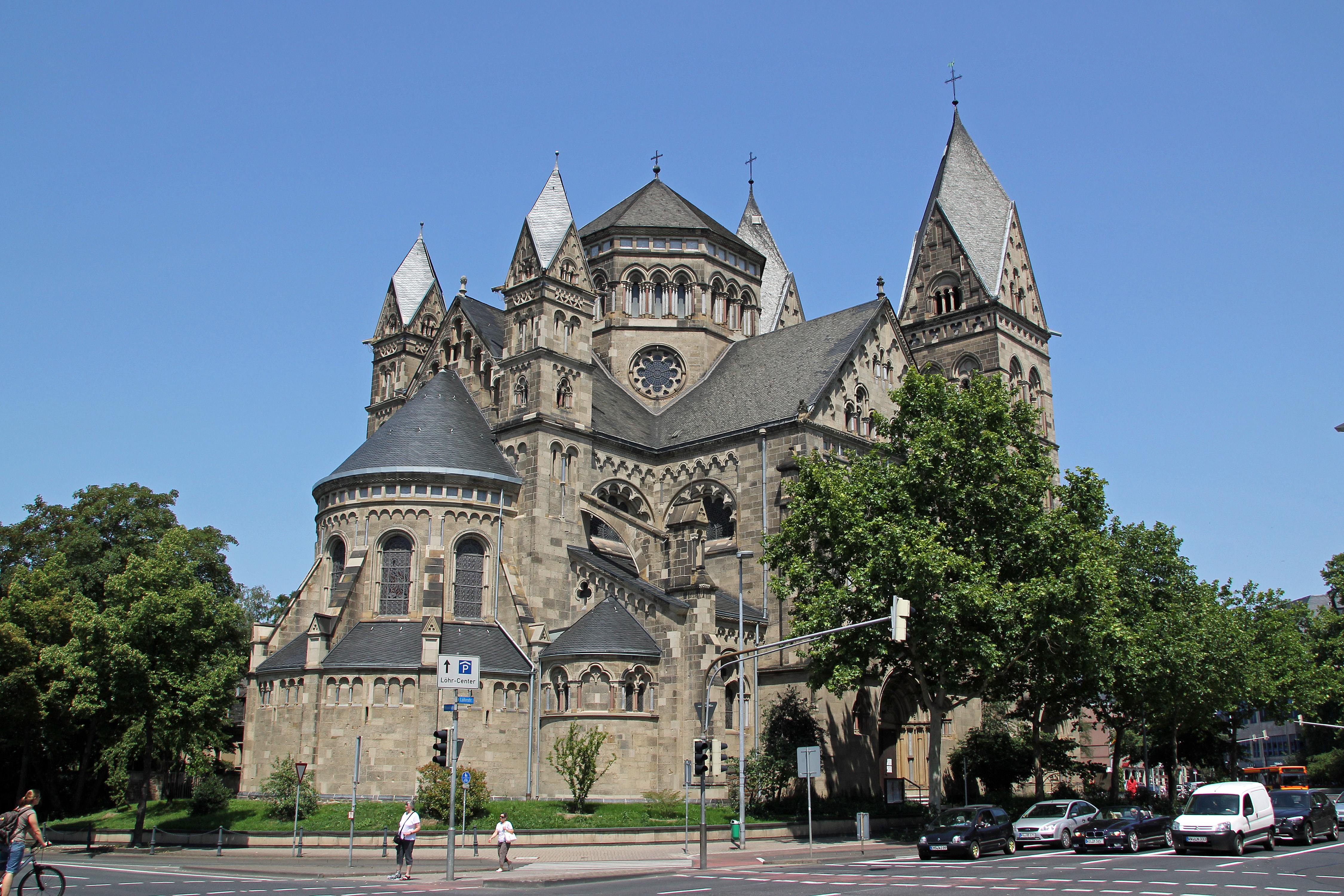 Herz-Jesu-Kirche in Koblenz